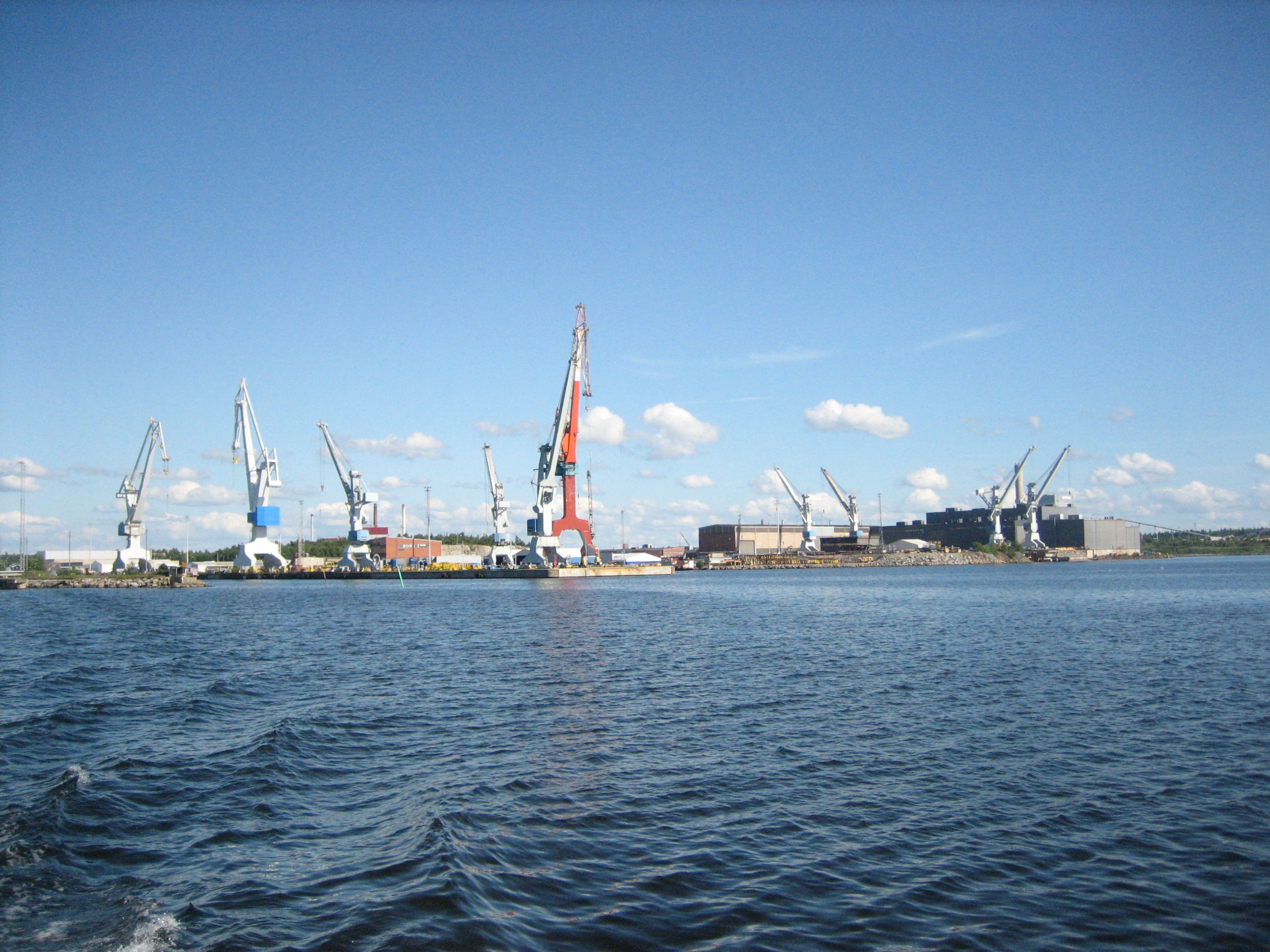 Rauma dockyards (STX Europe, Finland.)